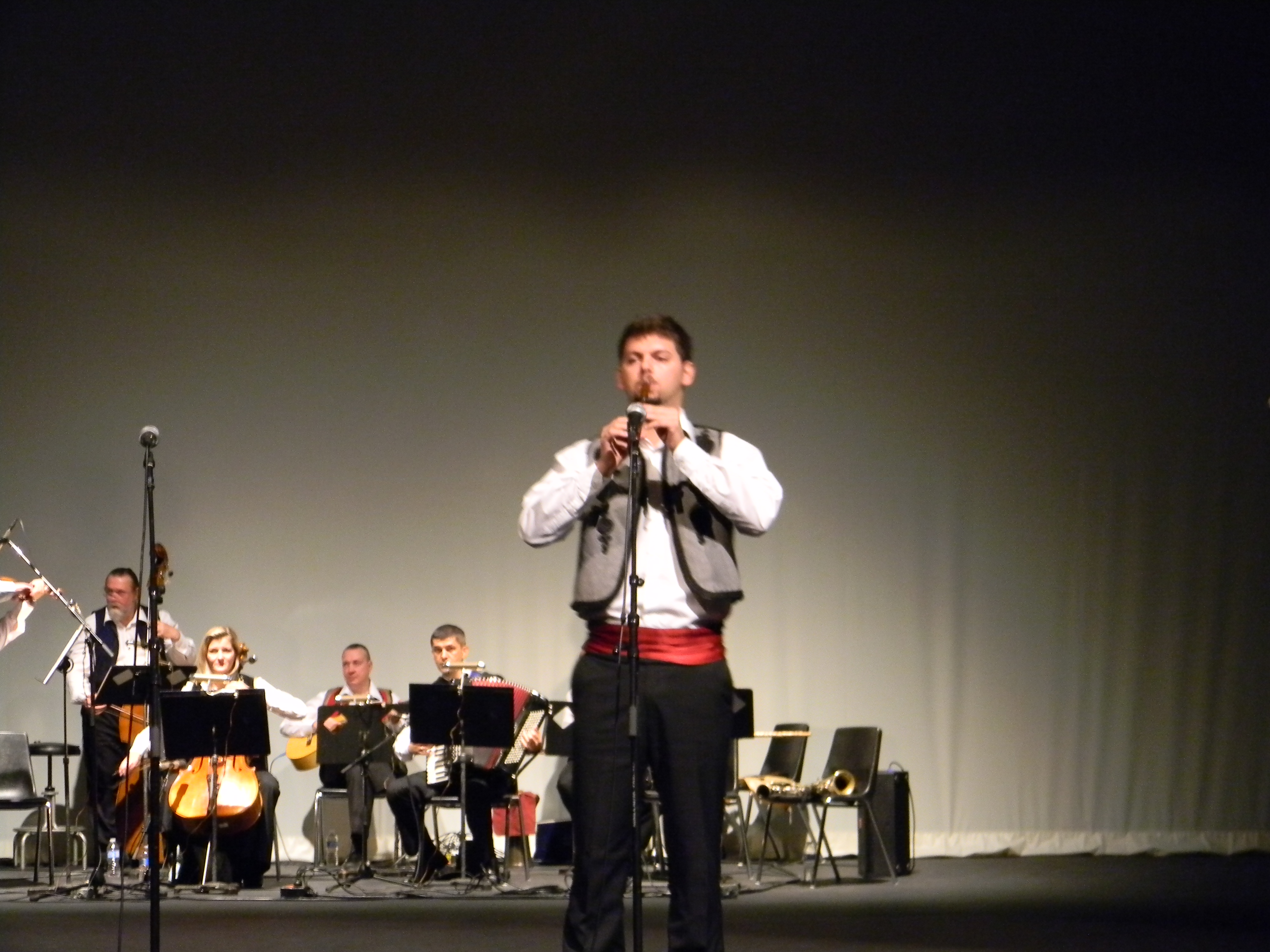 Marko Kojadinovic-The Serbian National Folk Dance Ensemble Kolo in Hamilton, Ontario, Canada 2011